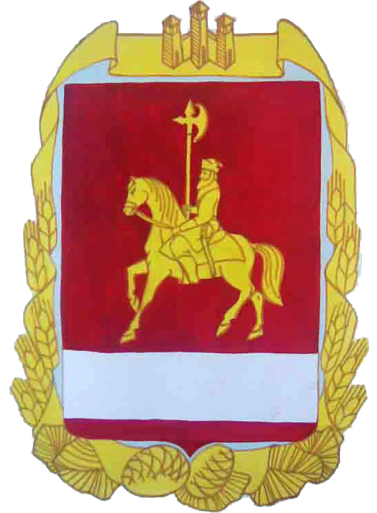 Flag of Karatuzsky rayon, Krasnoyarsk krai, Russia